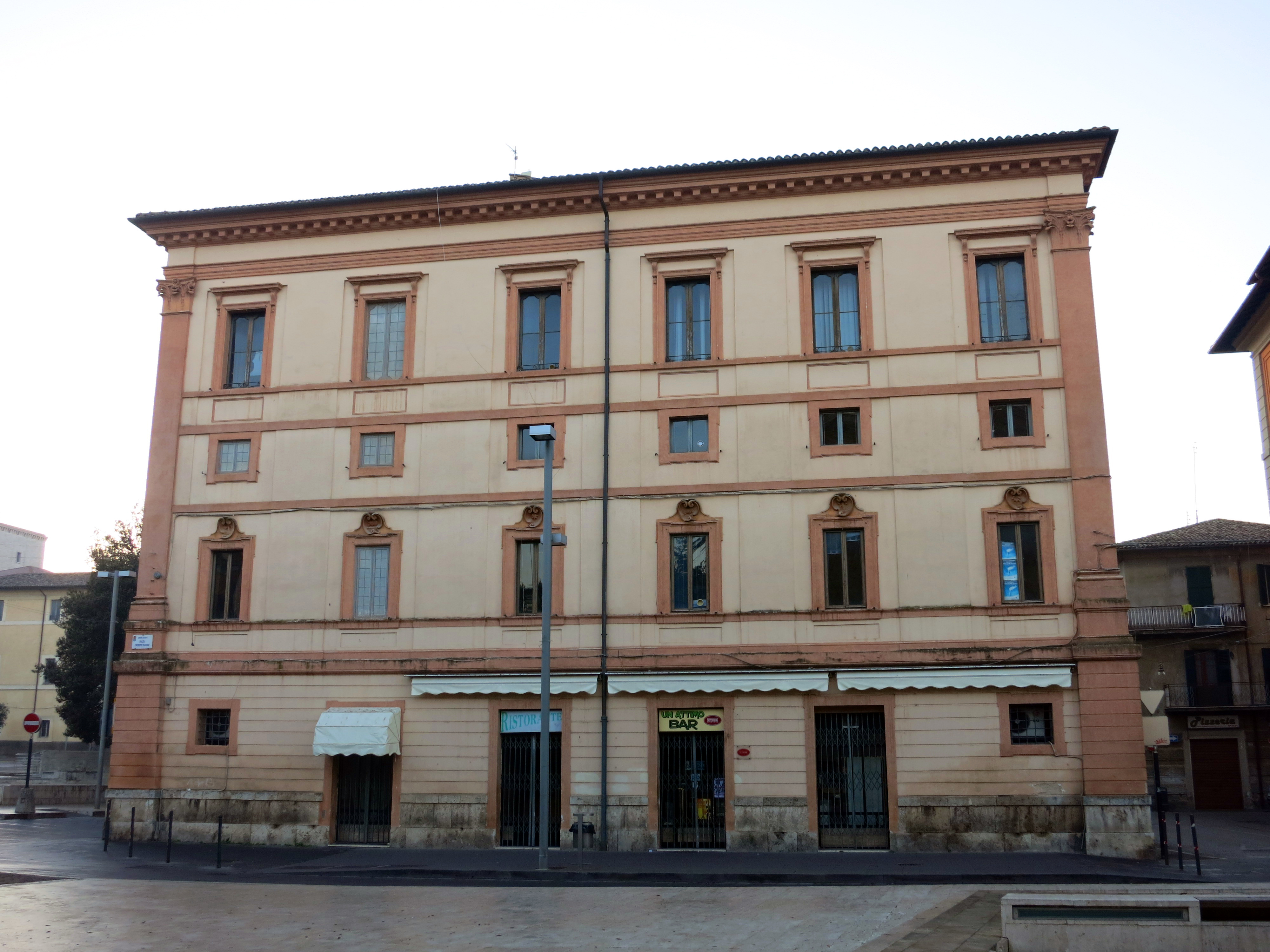 Palazzo Ricci, side on Mazzini square - Rieti, Lazio, Italy